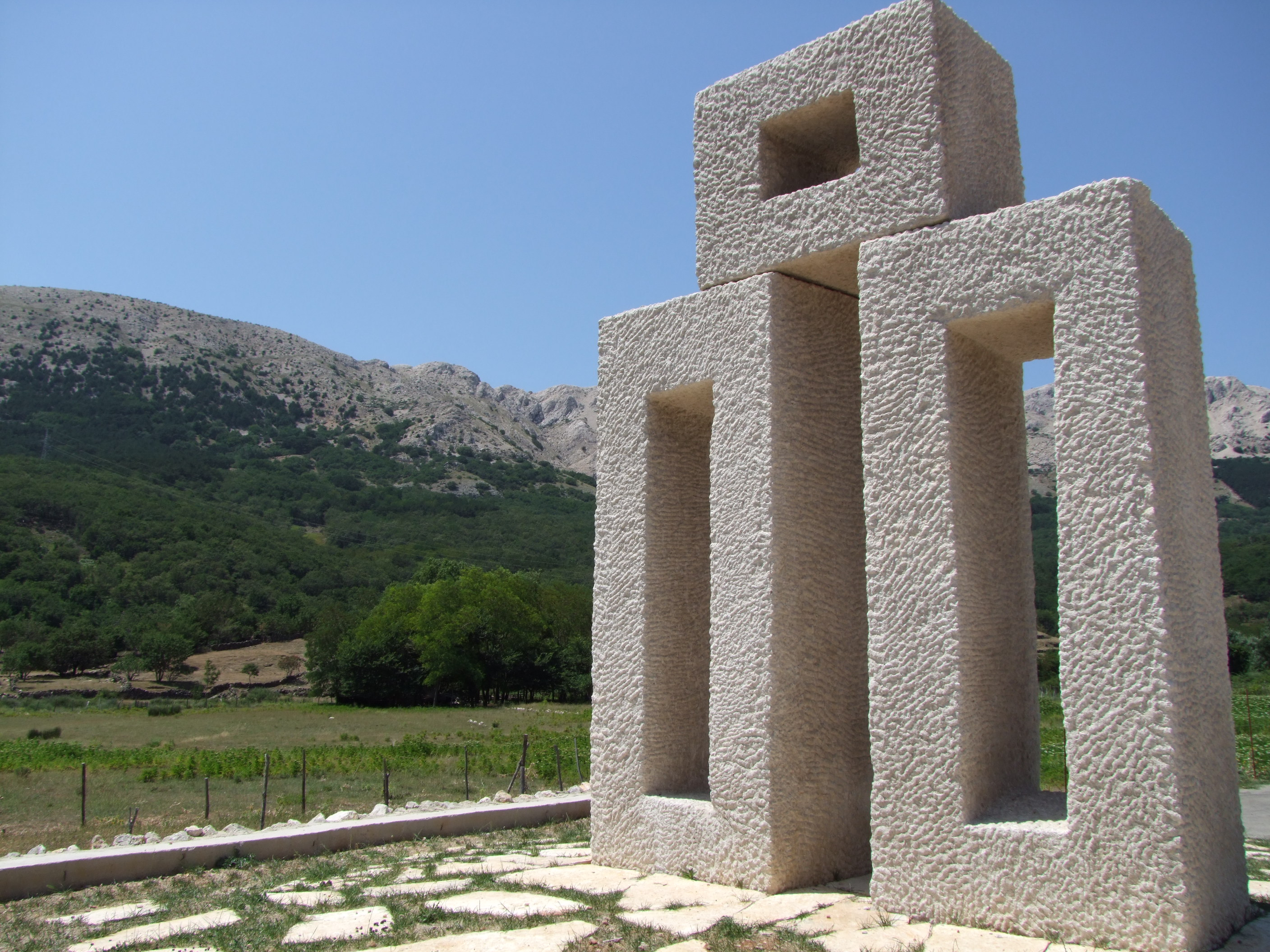 The Glagolitic alphabet, the letter "Ljudi" - Baška Glagolitic Path.